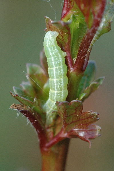 Picture taken in Commanster, Belgian High Ardennes . Species: Alsophila aescularia caterpillar on Crataegus laevigata.